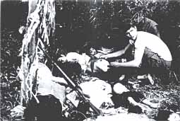 U.S soldiers recovered victim's bodies who killed by South Korean 2nd Marine Division, Blue Dragons in Phong Nhi and Phong Nut village, Quang Nam Province, South Vietnam on February 12, 1968. Photo by Corporal J. Vaughn, Delta-2 Platoon, U.S. Marine.[1][2][3]